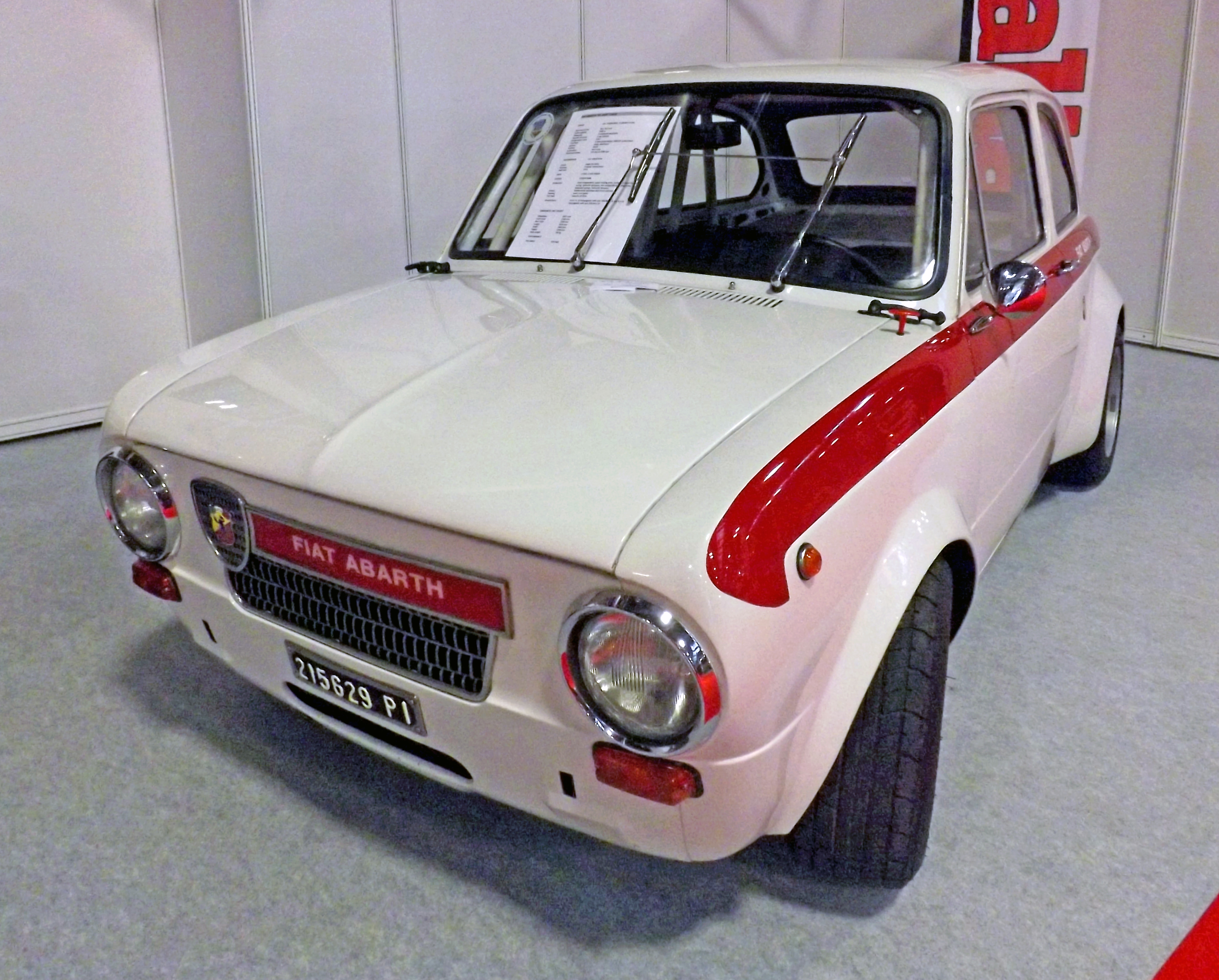 Gorgeous.